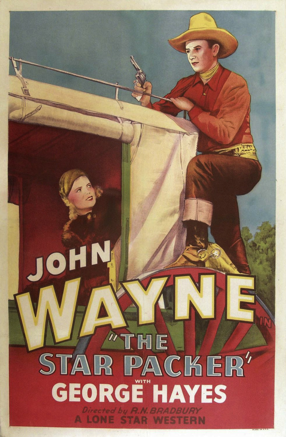 Poster for the 1934 film The Star Packer. The item has no copyright markings on it as can be seen in the links above. At lower right is Made in USA.